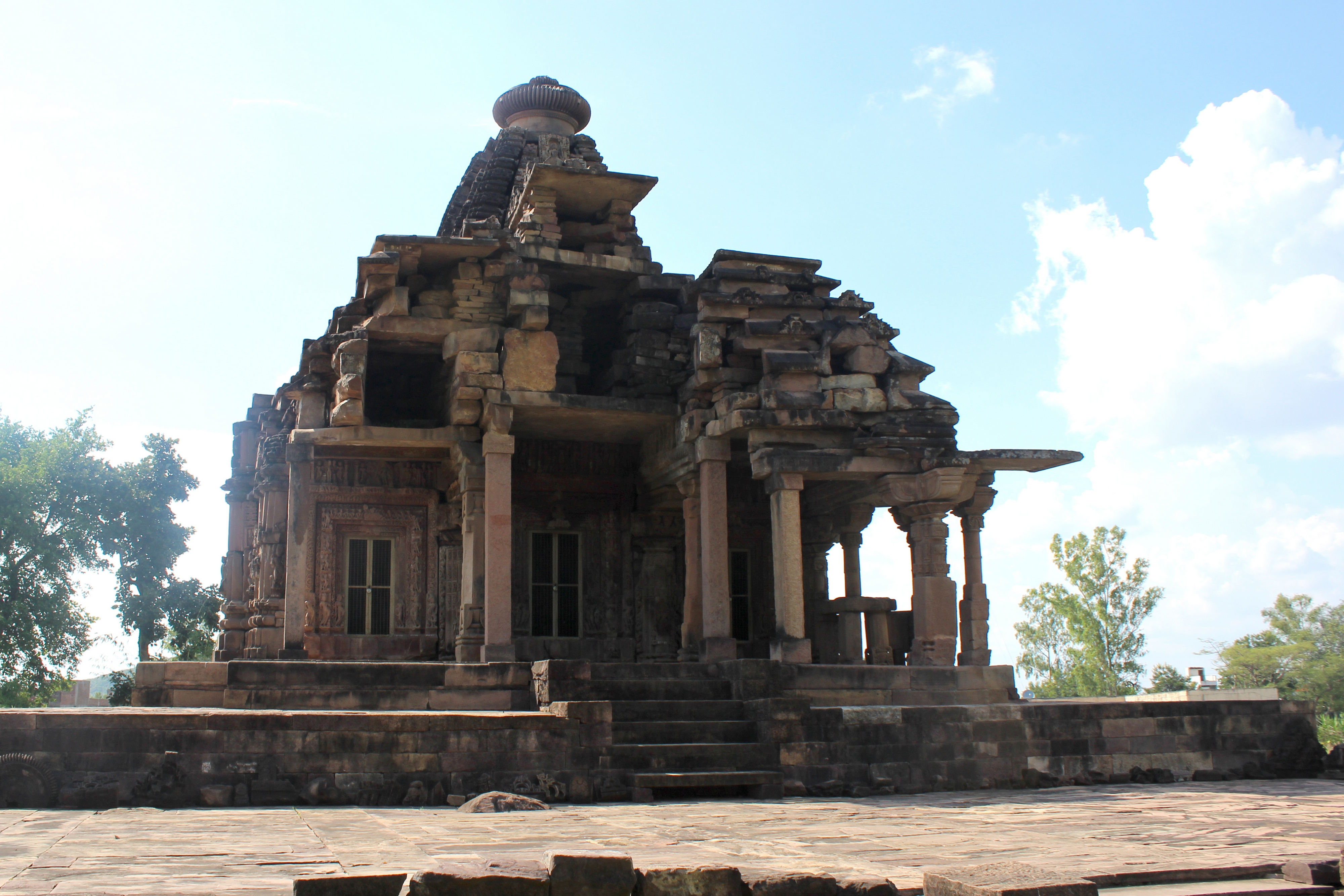 Bajramath temple